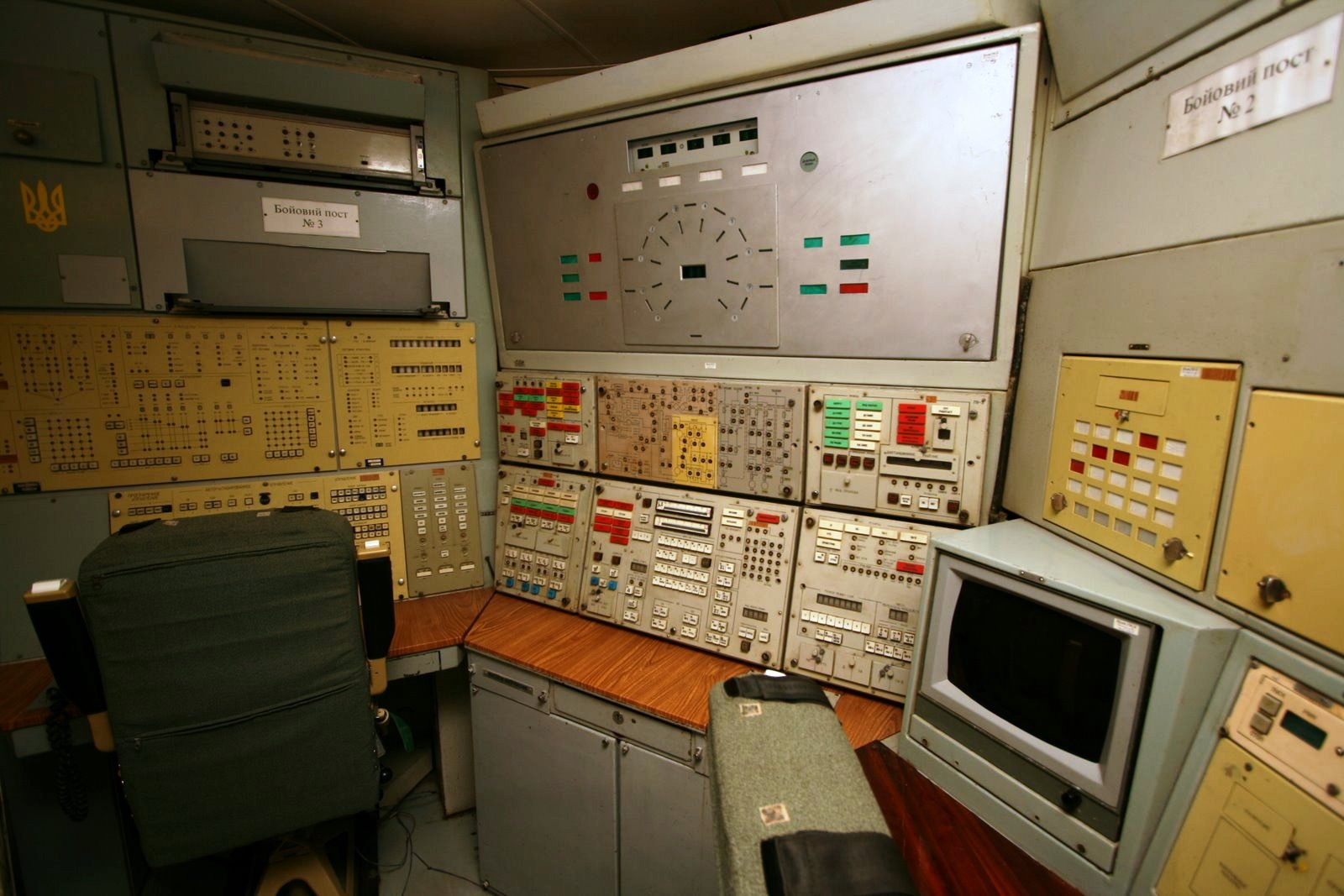 Component of the equipment of 11th UCP compartment.